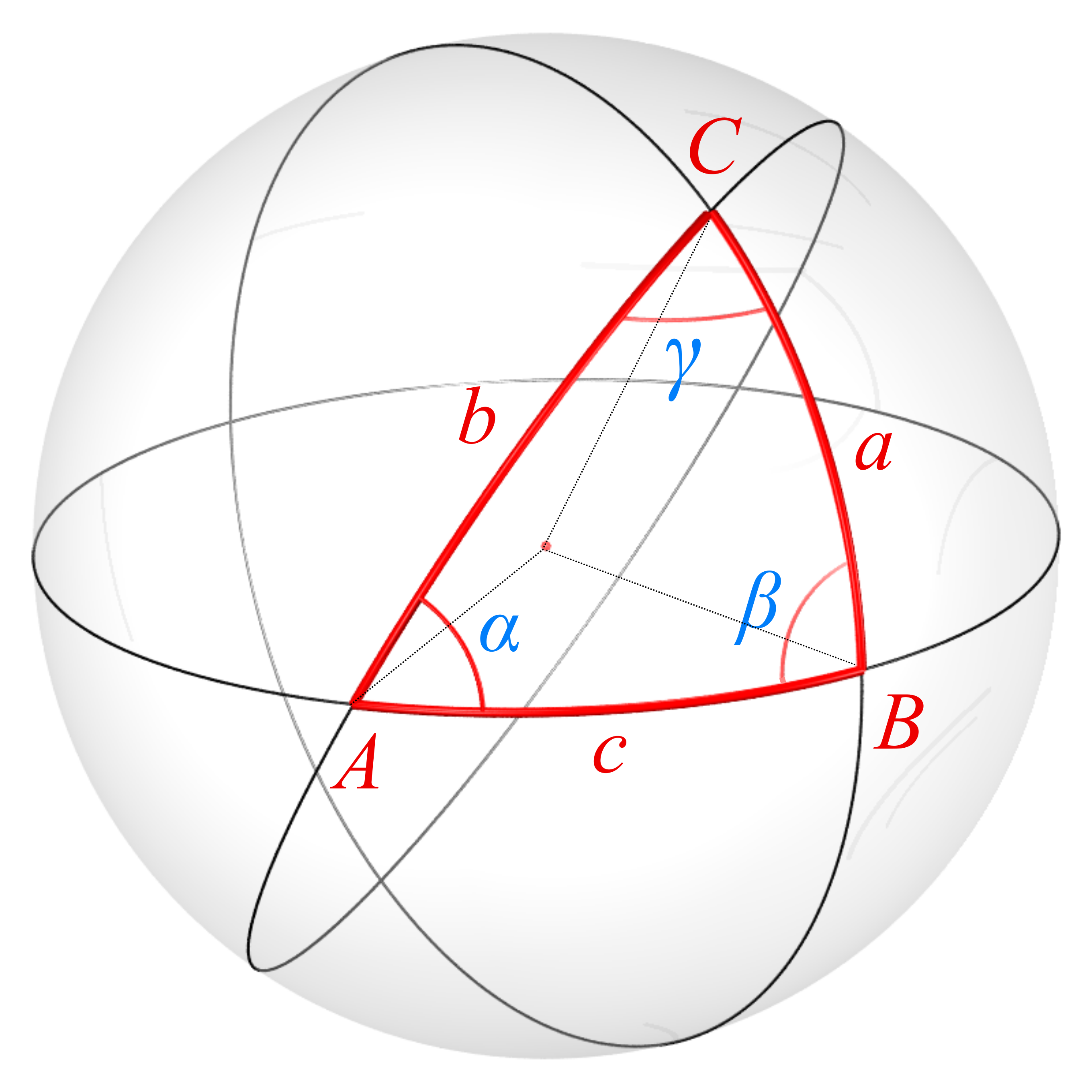 spherical triangle